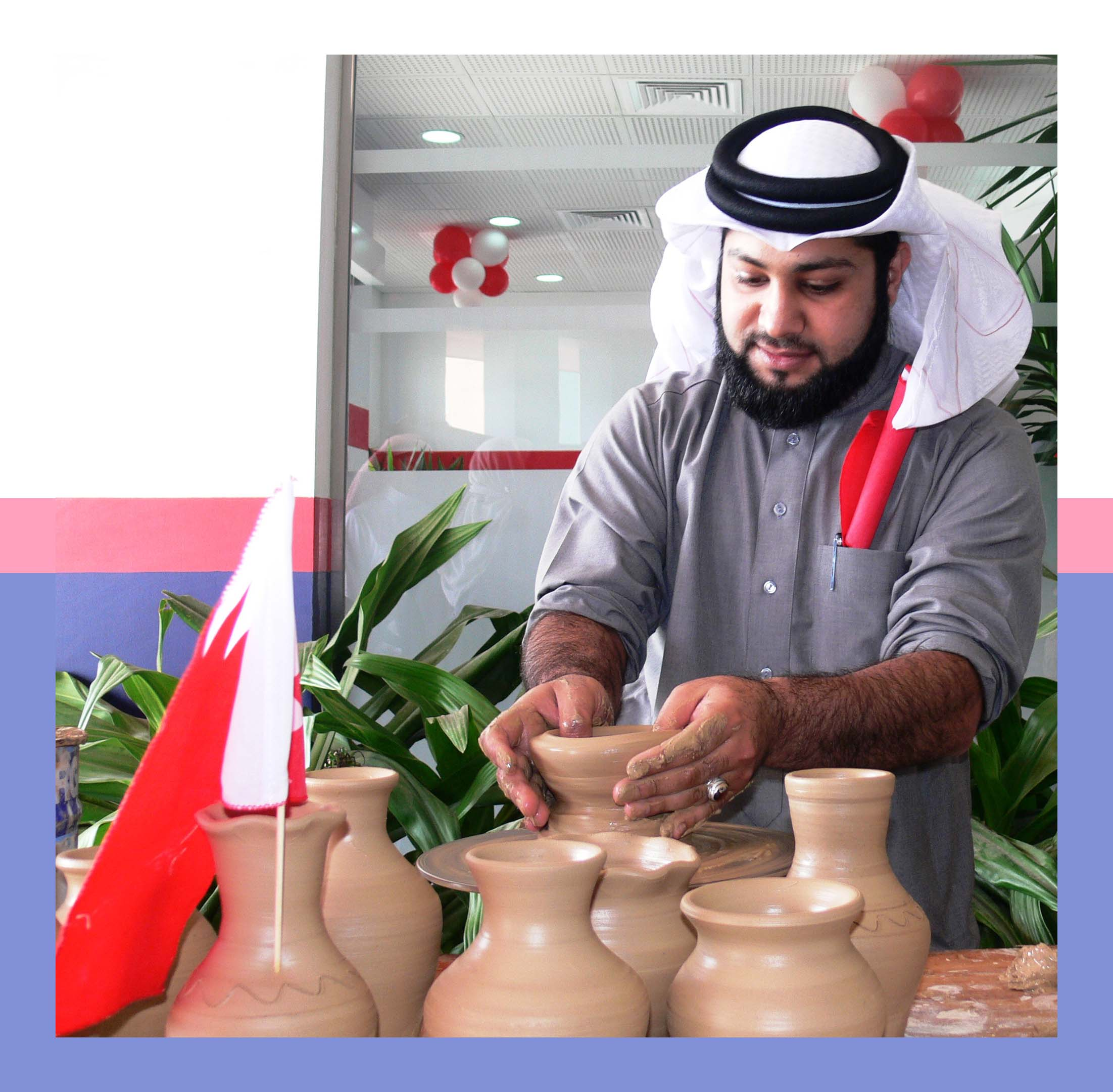 Pottery of Bahrain hand-shaped by man in shirt with rolled-up sleeves, white keffiyeh and beard. Flag of Bahrain in the foreground. Oirignal caption: Bahraini are famouse of this.